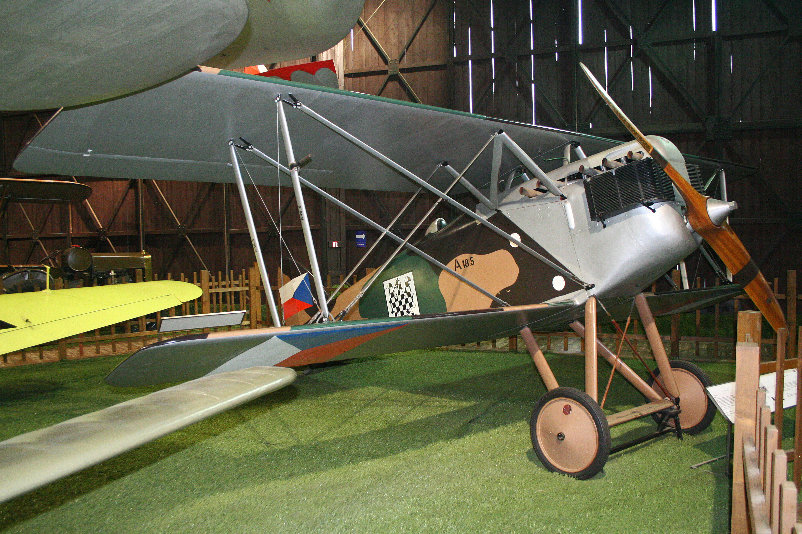 Standard fighter variant of the A.18. On display in the 1925-1938 hangar. Kbely Museum, Czech Republic. 07-10-2012